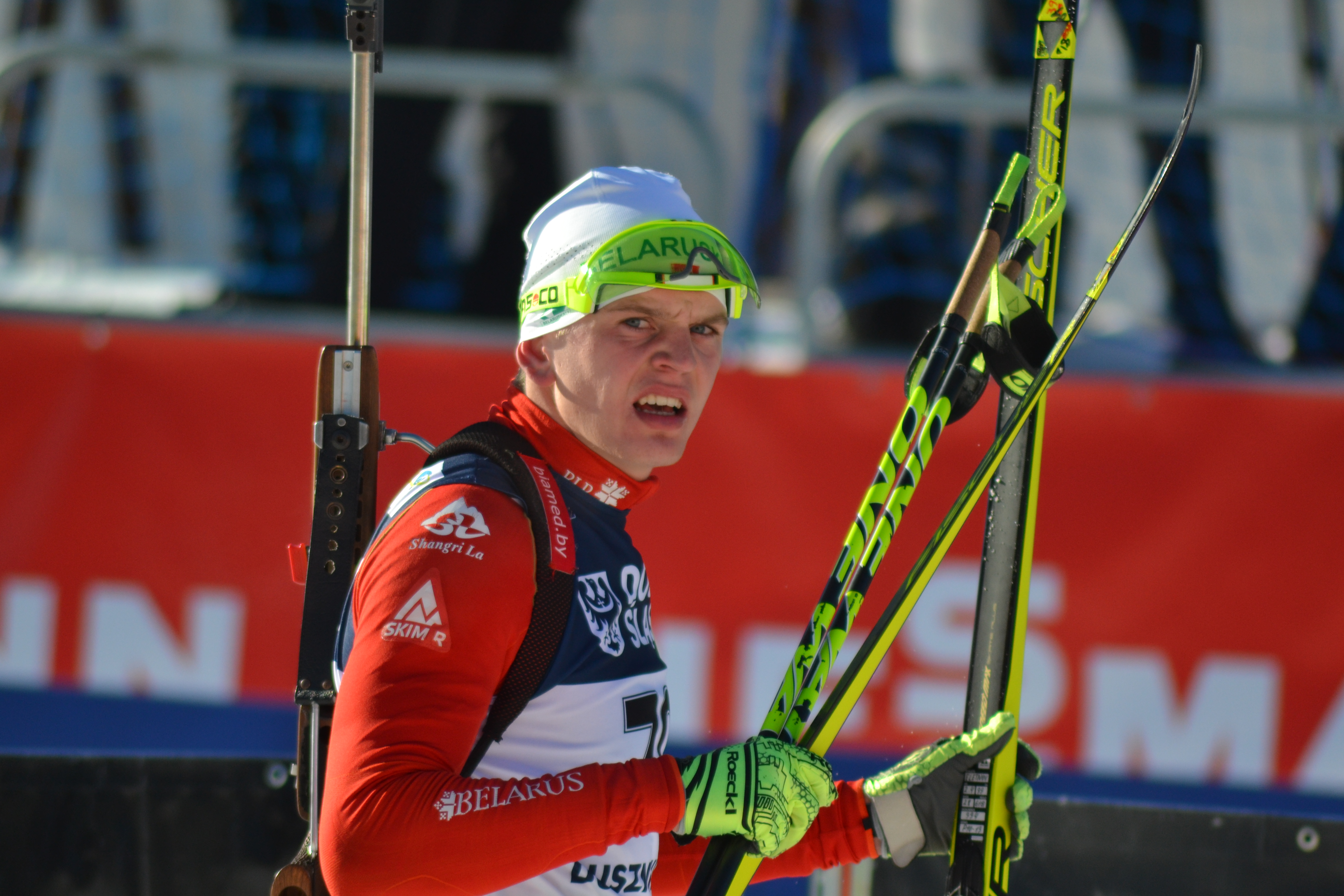 Open European Championships Biathlon 2017, Sprint Mens race.